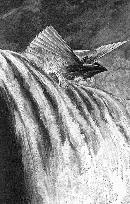 An illustration from Jules Verne's novel "Master of the World" (1902-03) drawn by George Roux.